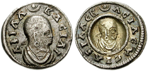 Coin of the Axumite king Eon